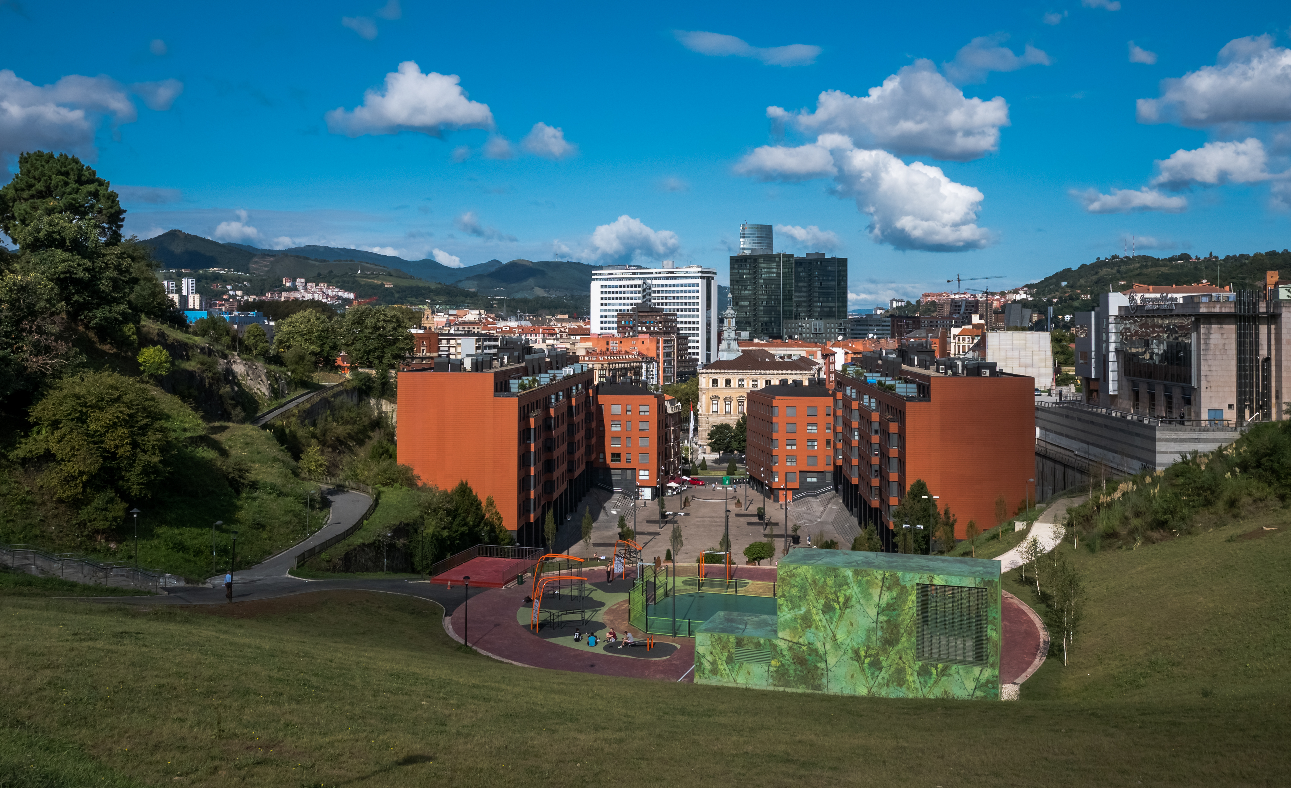 Plaza del Gas Square, Biscay, Basque Country, Spain